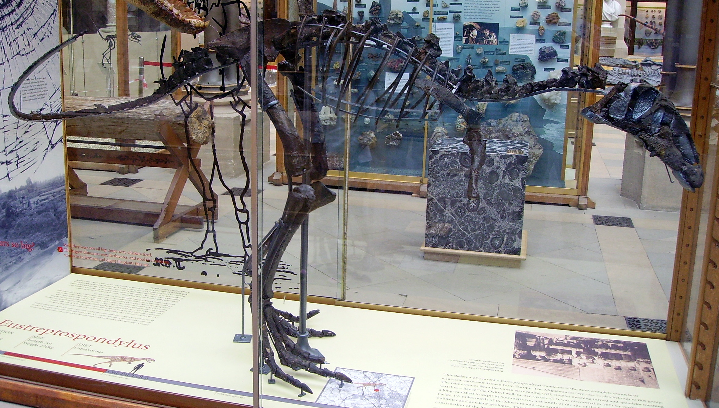 Eustreptospondylus skeleton , holotype OUM J13558. What is preserved of the front lower jaws is in fact present, partly hidden by the snout.